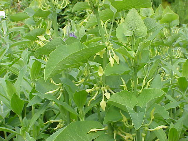 Species: Aristolochia clematis Family: Aristolochiaceae Image No. 7